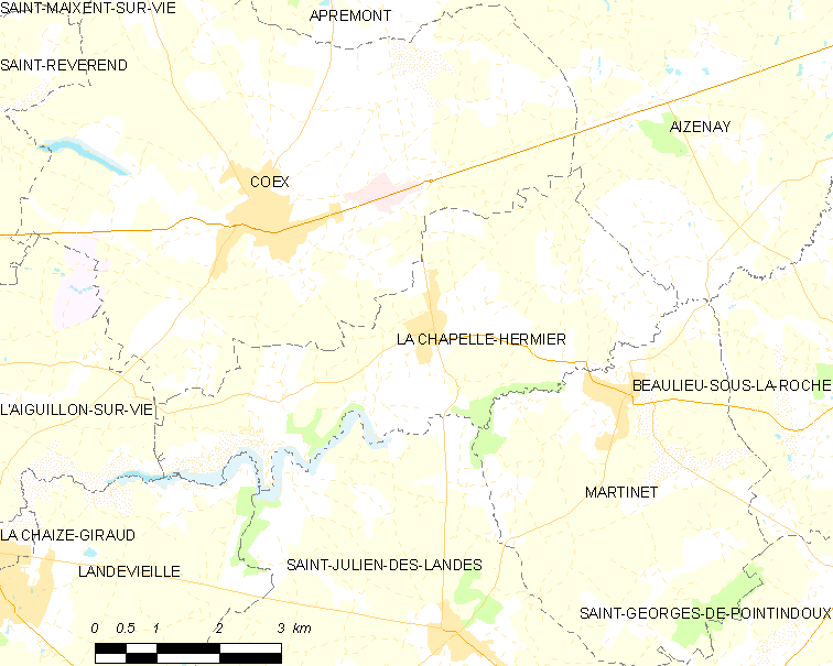 Map of French municipality La Chapelle-Hermier